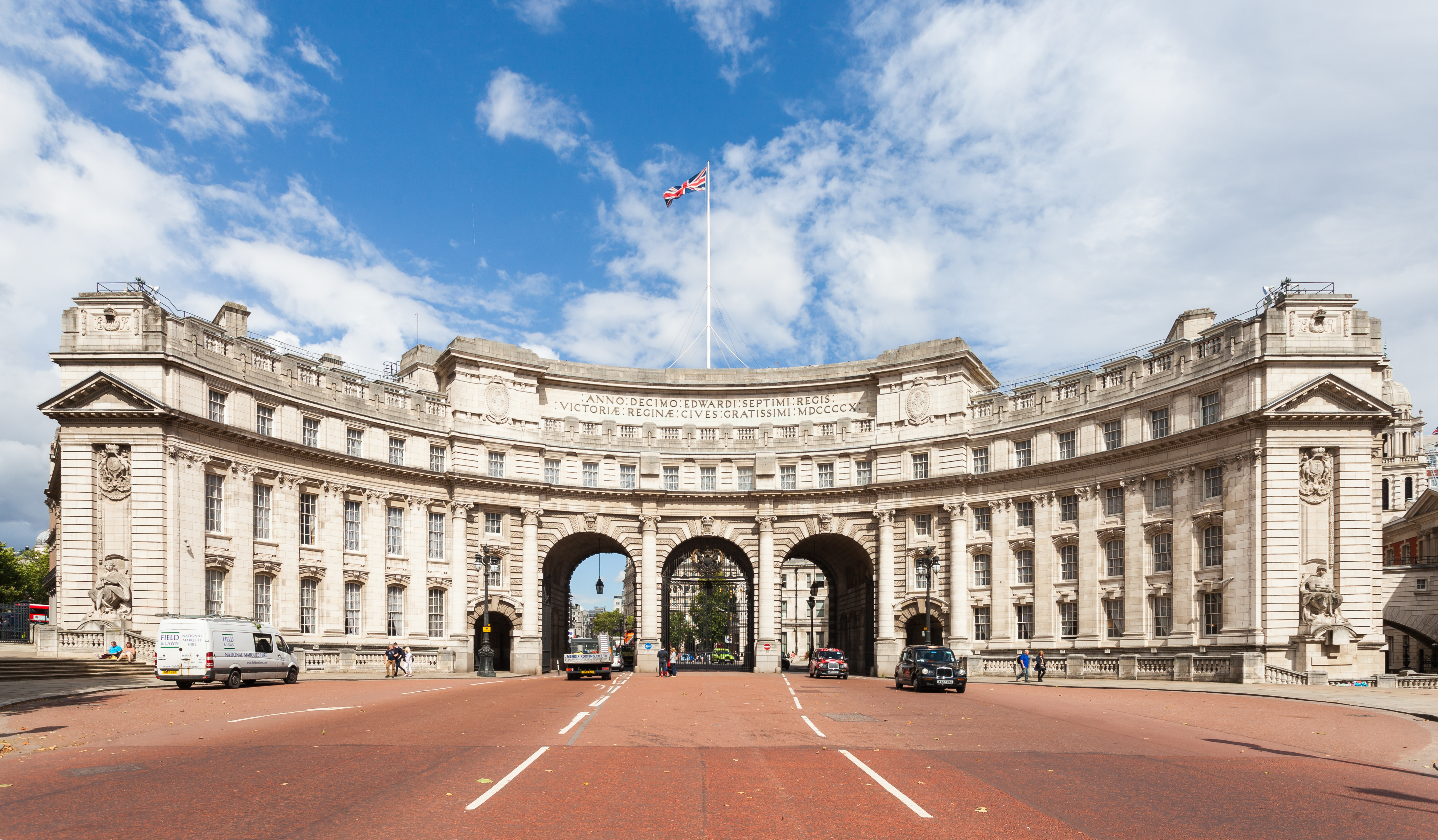 Admiralty Arch, London, England